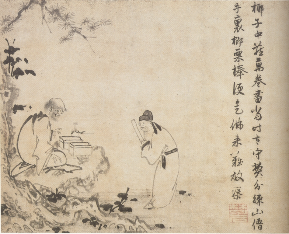 Detached segment of the Deeds of the Zen Masters (紙本墨画禅機図断簡, shihon bokuga zenkizu dankan): Priest Zhichang and courtier Libo (智常・李渤図, chijō ribotsuzu)